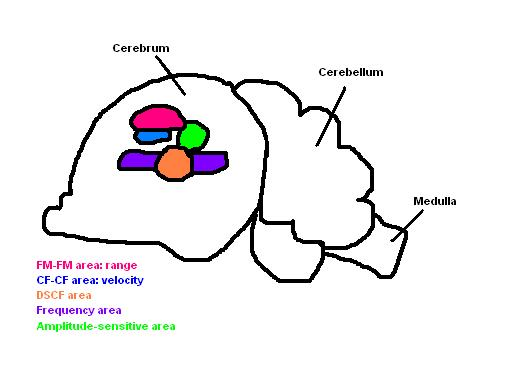 Sketch of bat brain and auditory cortex